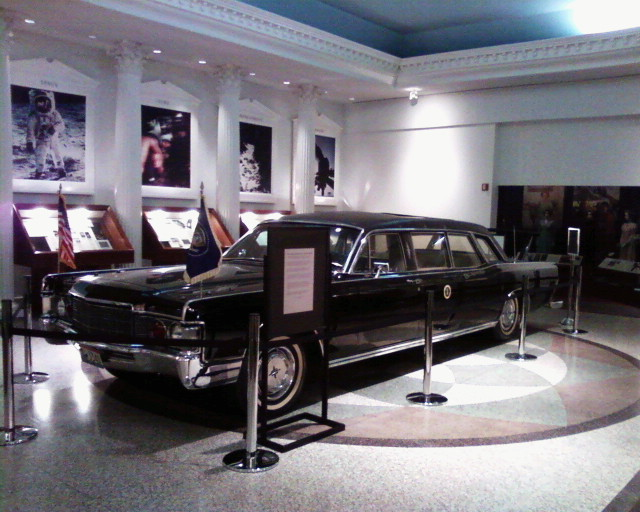 The U.S. government limousine that transported President Richard Nixon, now housed at the Richard Nixon Presidential Library, Yorba Linda, California.